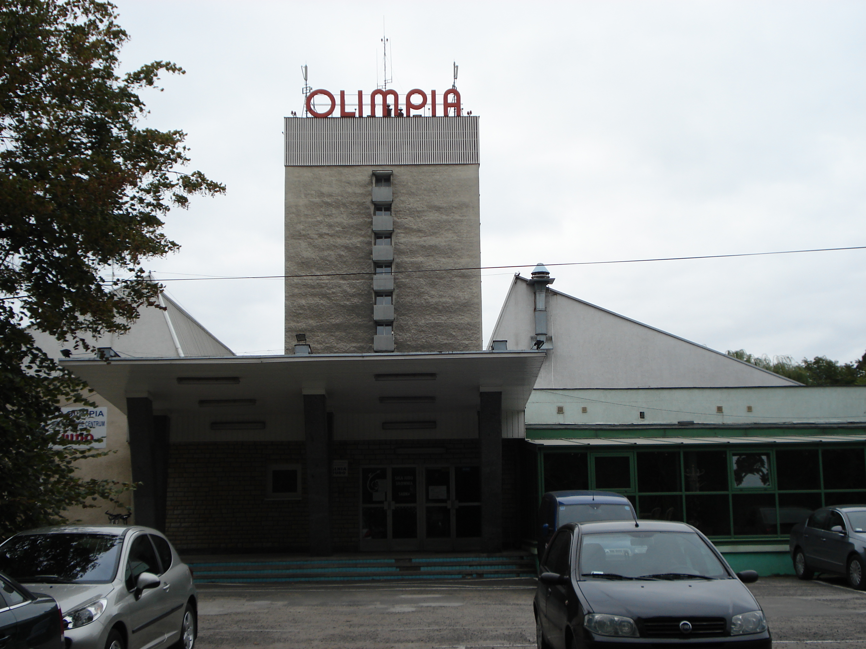 The Olimpia Swimming Pool in the Gustaw Manitius Park in Poznań